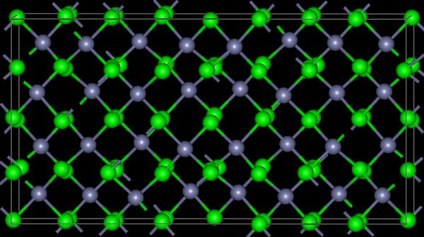 ZnI2 structure. Green atoms are iodine Journal = ACTA CRYSTALLOGRAPHICA, SECTION B: STRUCTURAL CRYSTALLOGRAPHY AND CRYSTAL CHEMISTRY, Year = 1978, Volume = 34, Page = 3160–3162, Title = Structure Cristalline de I'lodure de Zinc Znl2, Authors = Fourcroy P.H., Carre D., Rivet J.